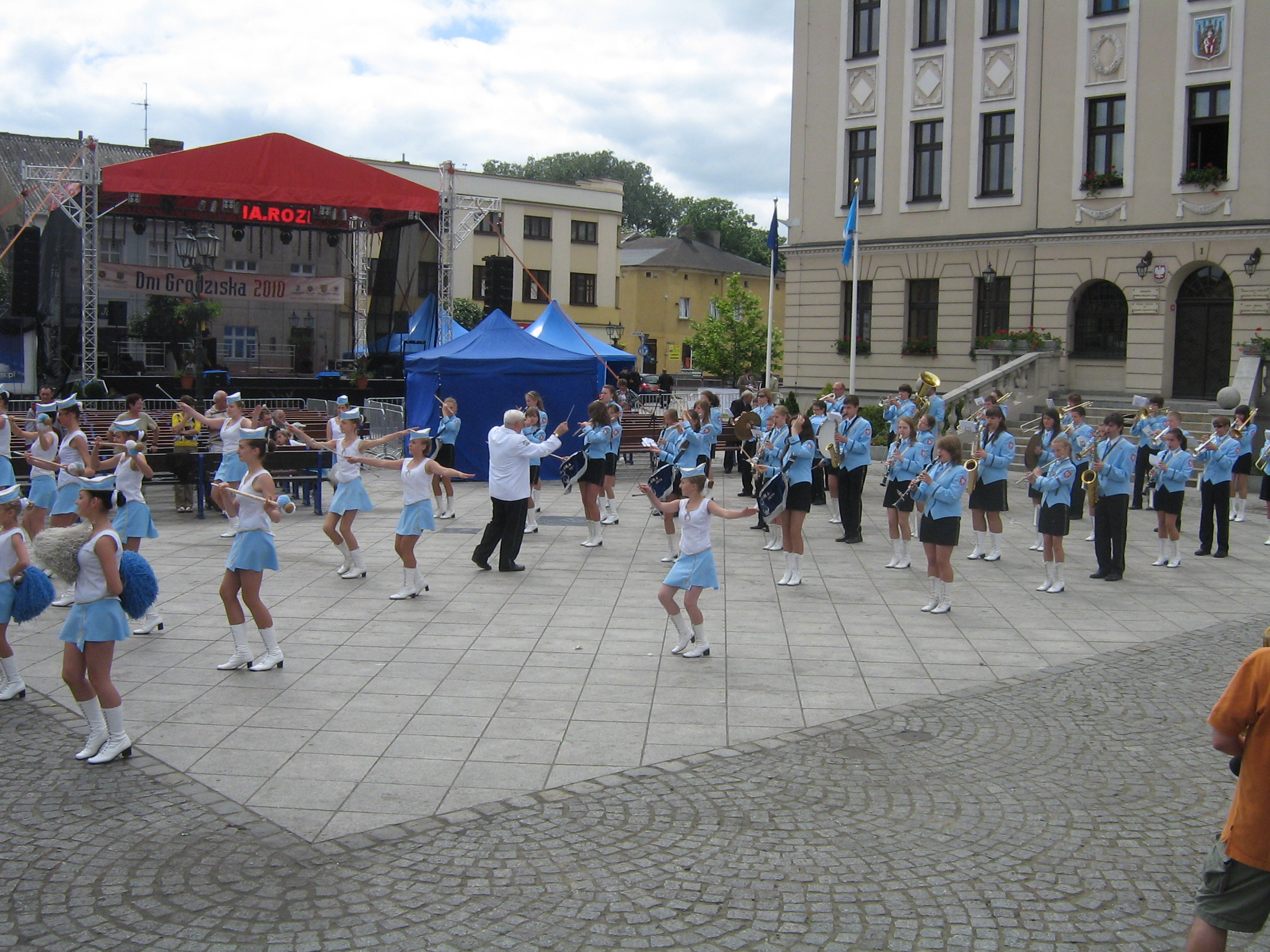 Brass Band in Grodzisk Wielkopolski (Poland).